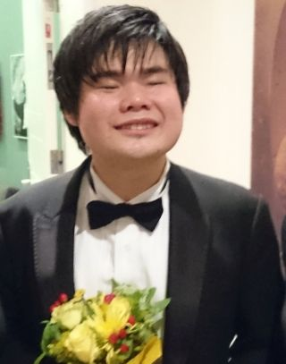 Image of Japanese pianist-composer Nobuyuki Tsujii, May 10 2019